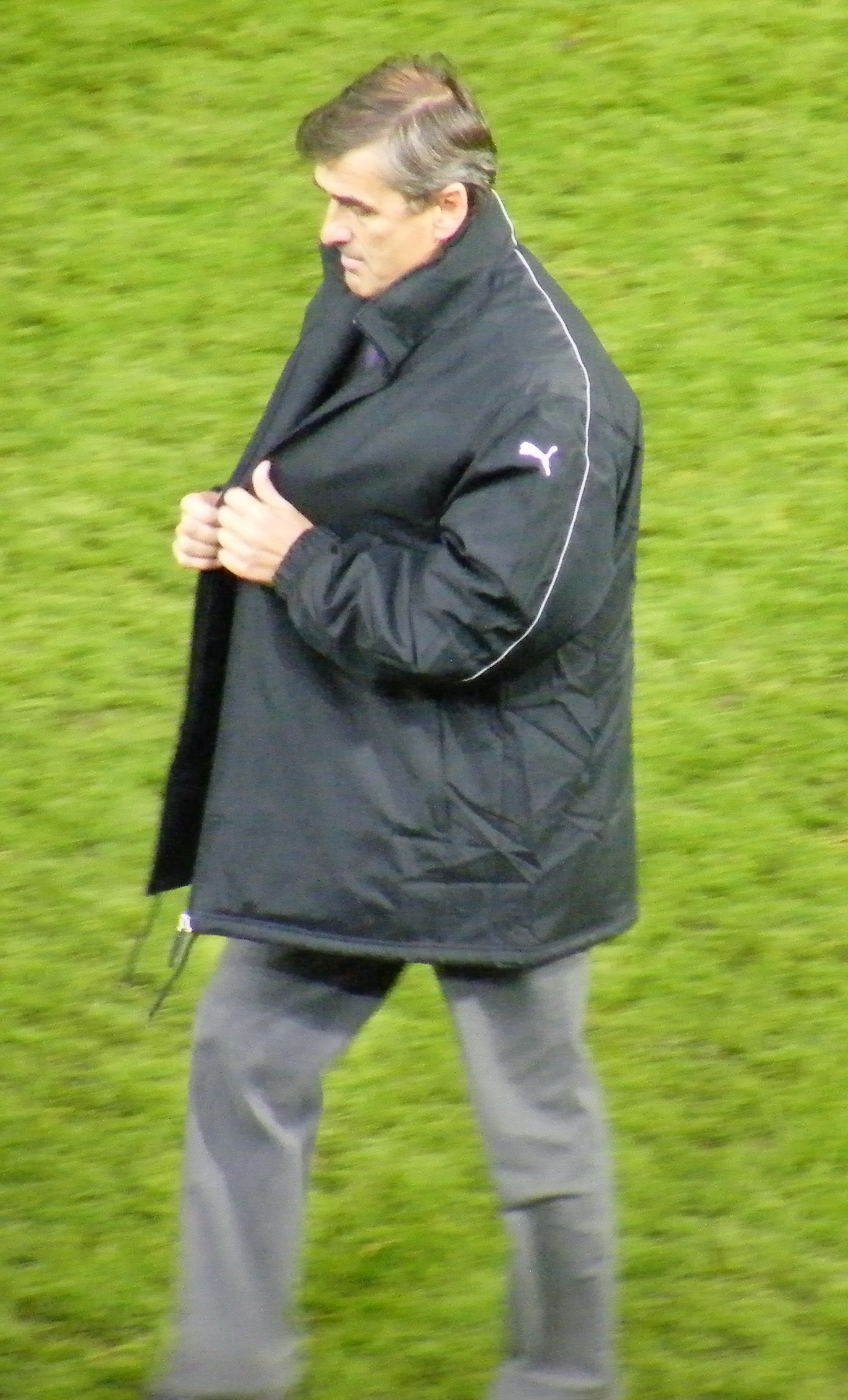 Lázár Szentes Hungarian association football coach.